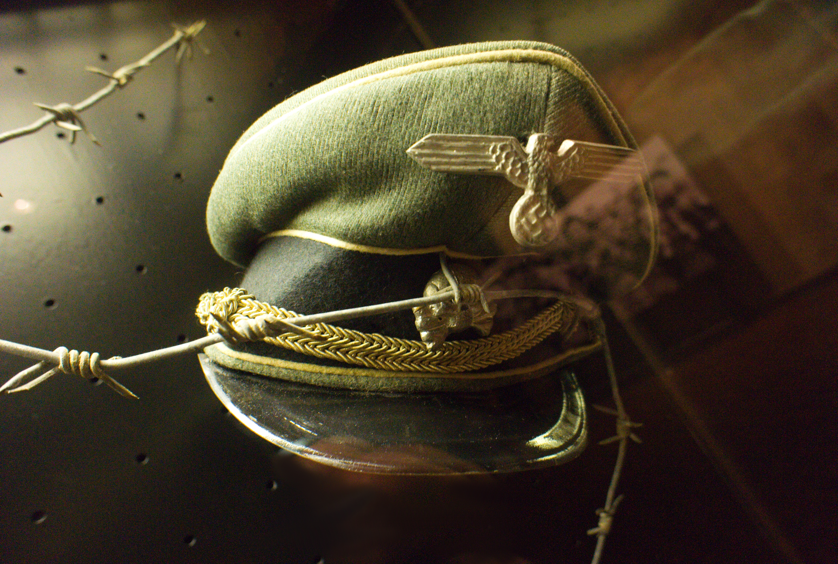 Hat of "SS Totenkopf", Rodina Mat, Kiev.